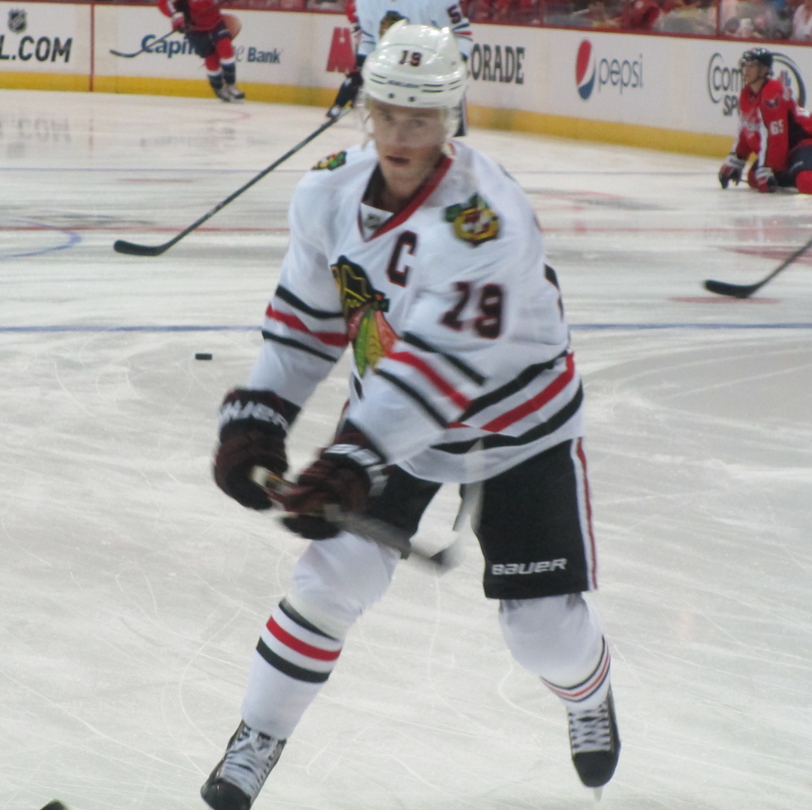 Blackhawks' captain, Jonathan Toews